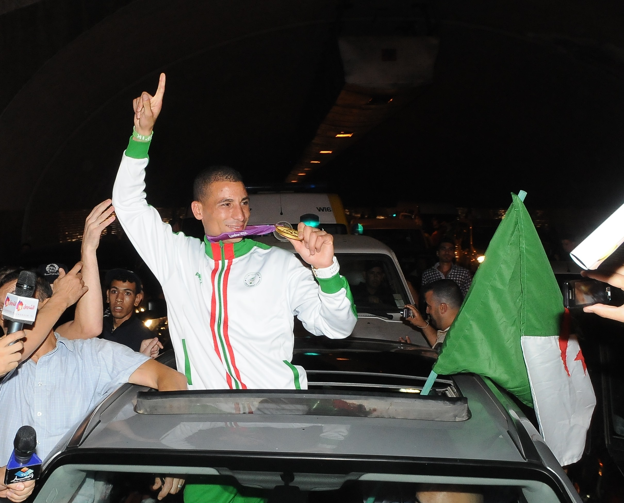 Athlete Taoufik Makhloufi received a hero's welcome in Algeria after the London Games.